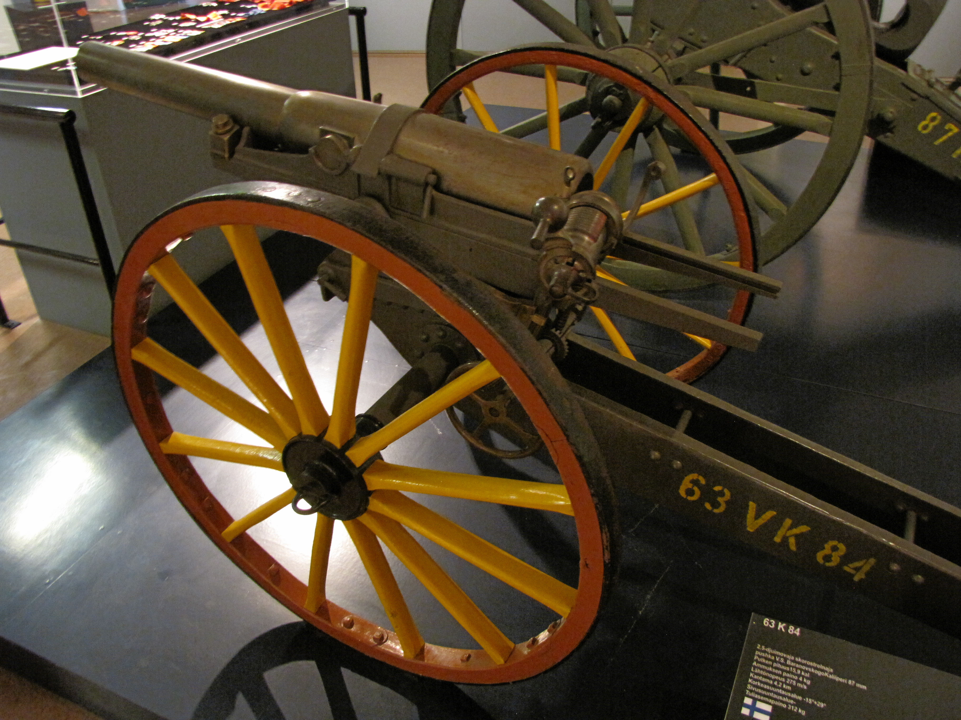 Imperial Russian 2.5 inch (63 mm) Baranovsky gun Hämeenlinna artillery museum.